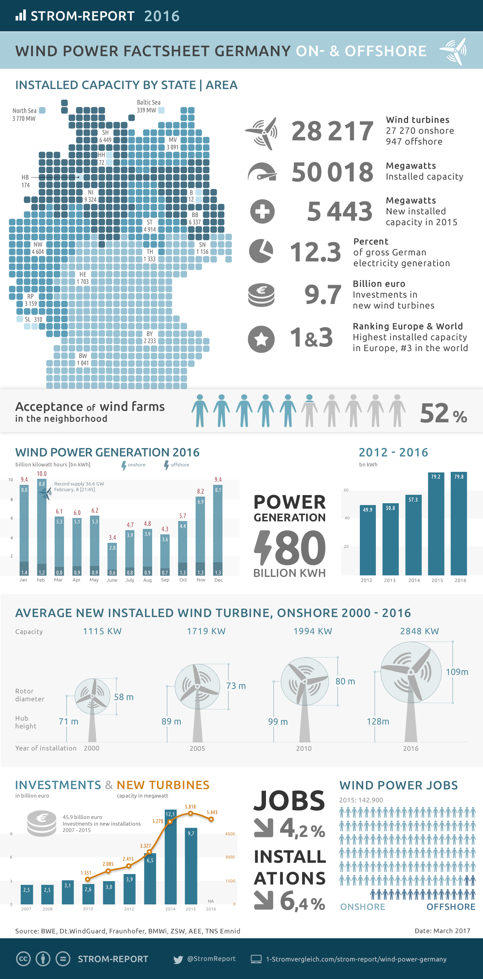 Wind power Germany 2016 fact sheet: electricity generation, development, investments, capacity, employment and the public opinion. Data: Strom-Report, BWE, BmWi, Dt. WindGuard, Fraunhofer, AEE, EWEA (WindEurope)